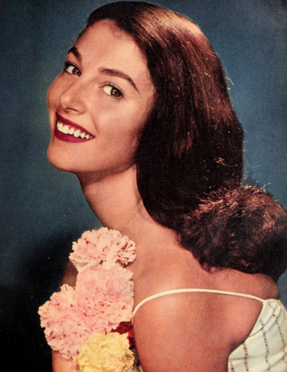 Italian-American actress, Pier Angeli (1937-1971) from Modern Screen, 1957